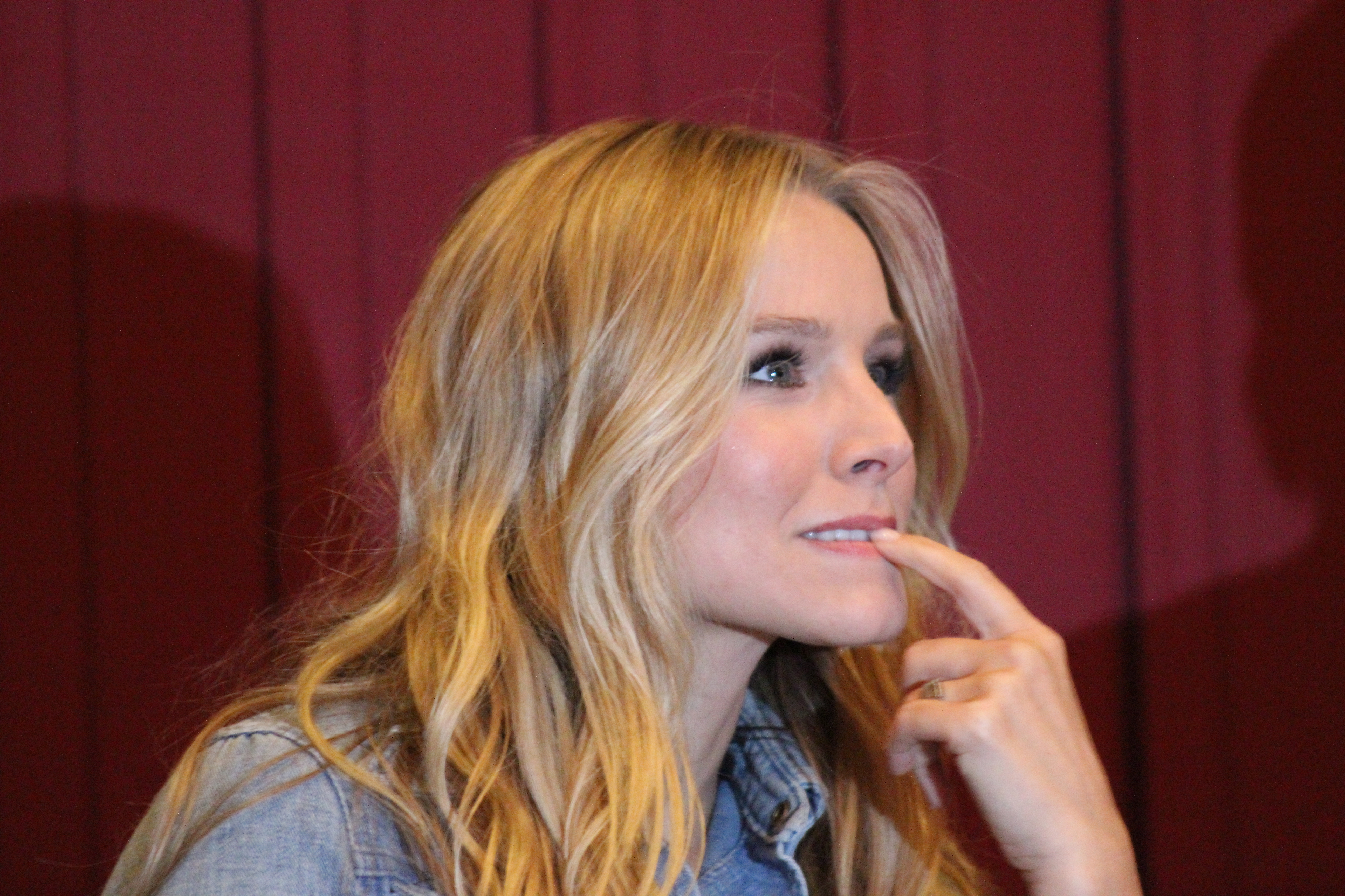 Kristen Bell in town to promote "Hit and Run"